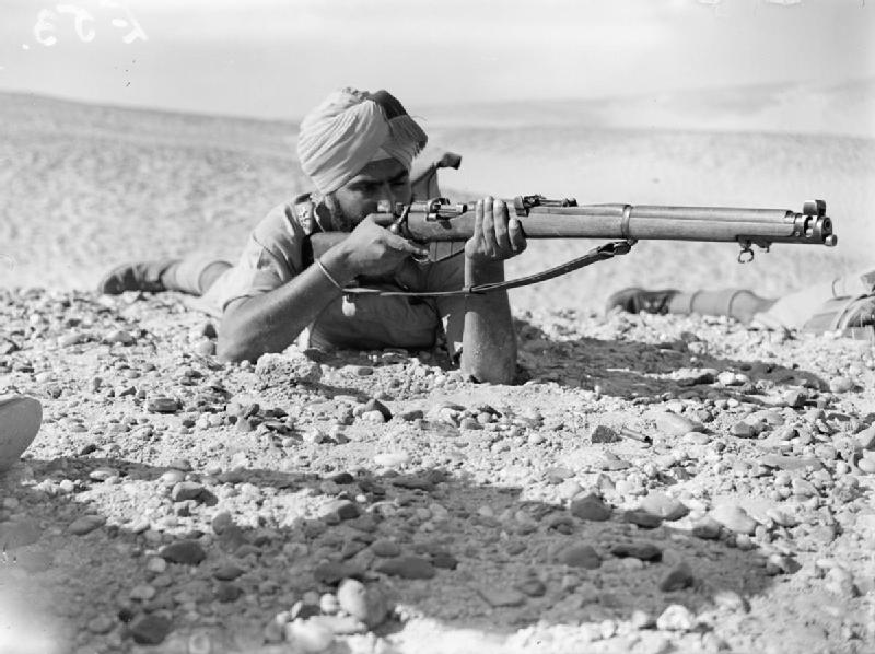 Commonwealth Forces in North Africa An Indian rifleman with a SMLE (Short Magazine Lee-Enfield) Mk III in the prone firing position, Egypt, 16 May 1940.